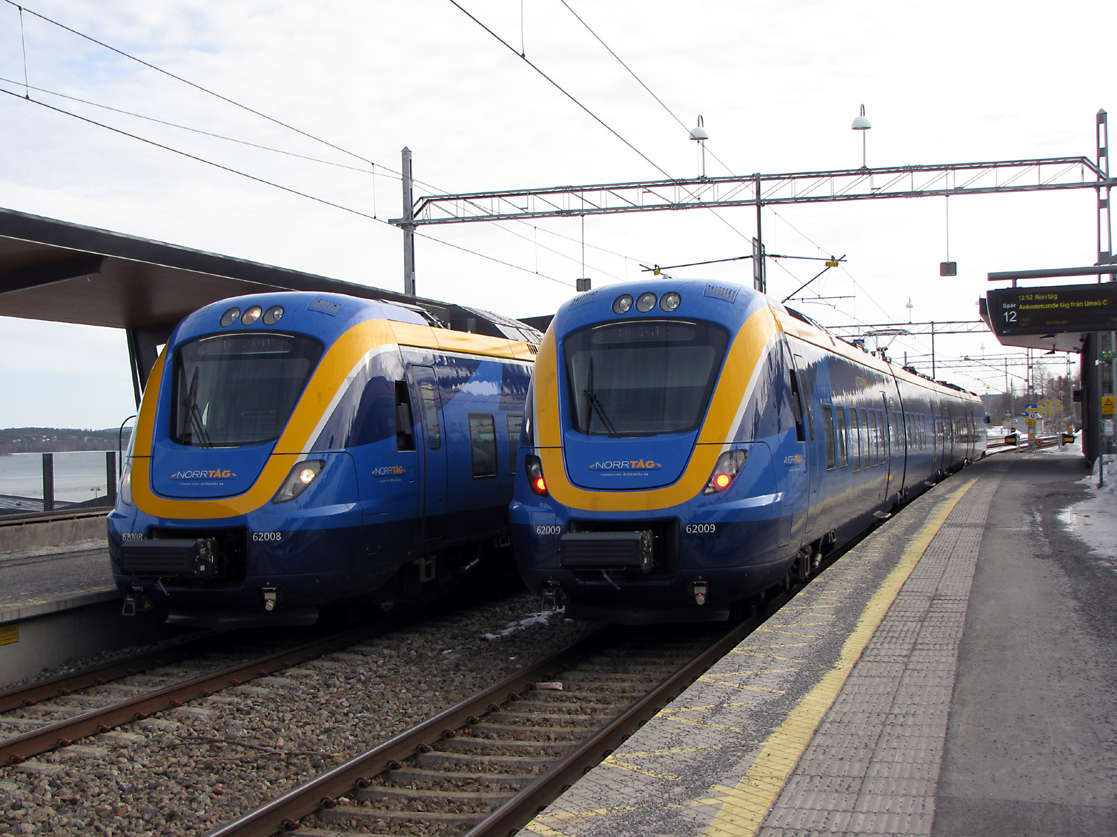 Two Norrtåg X62 trains in Örnsköldsvik, Sweden.